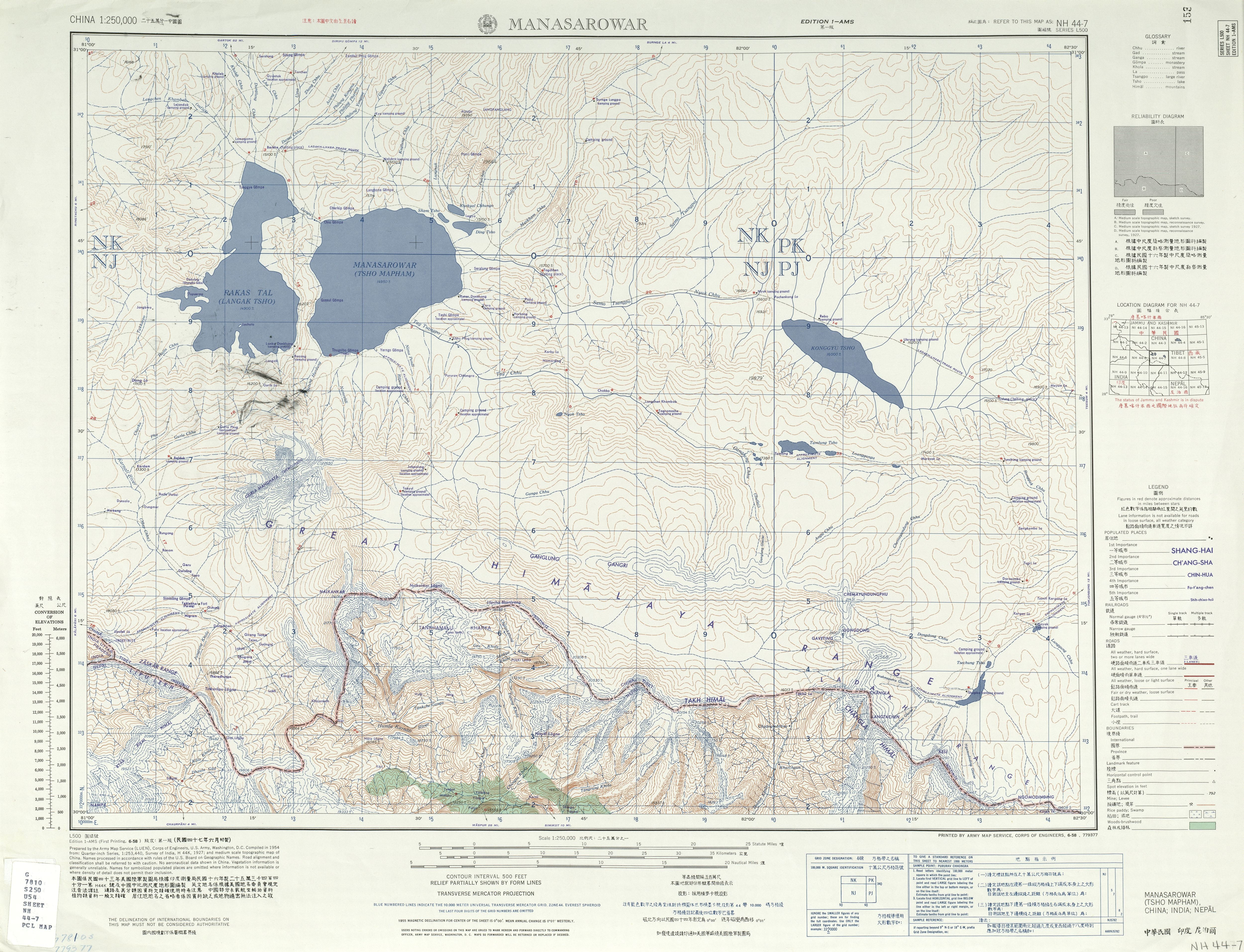 Map of Lake Manasarovar area (Burang County), Tibet